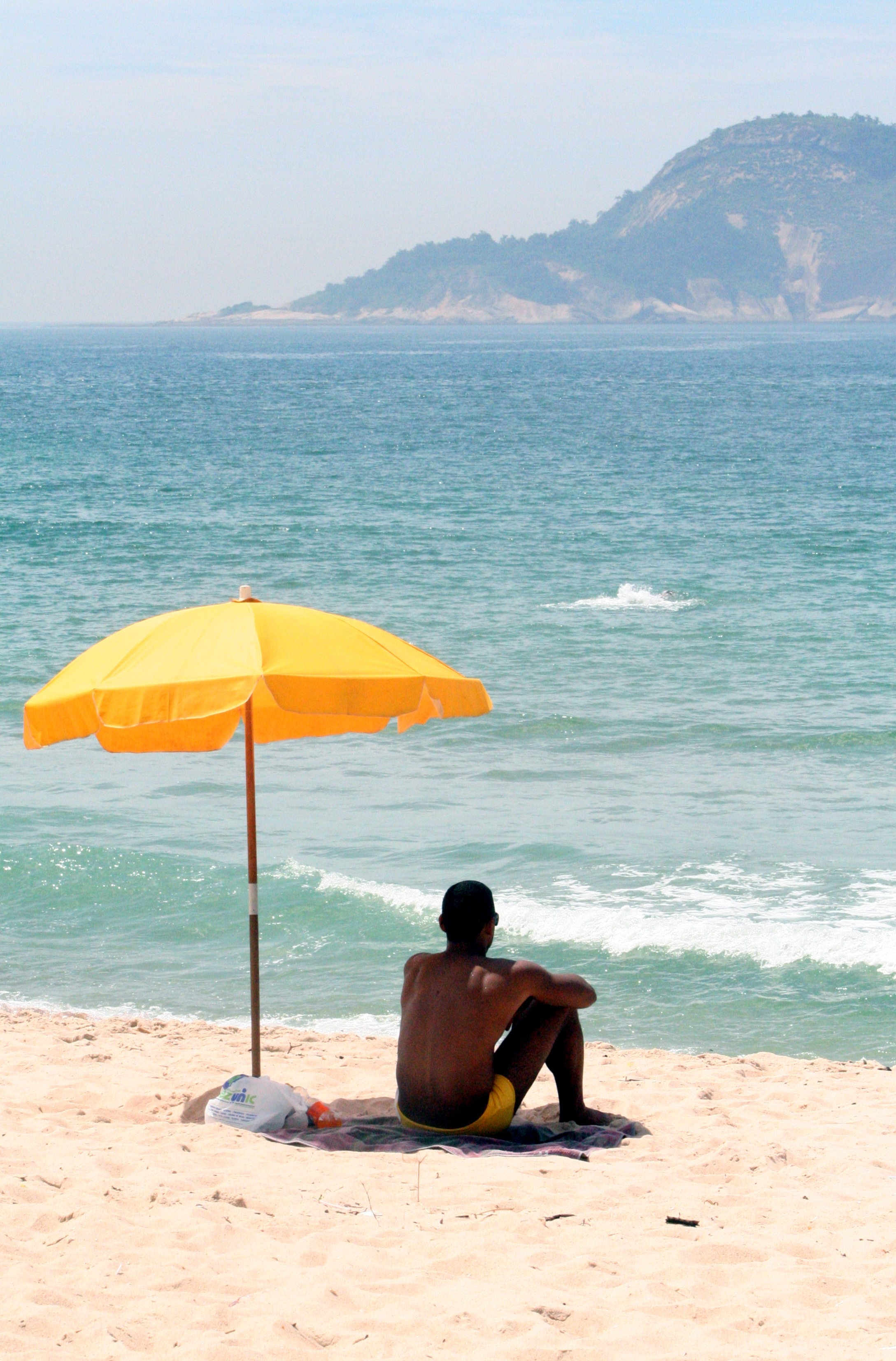 Man sitting under beach umbrella.